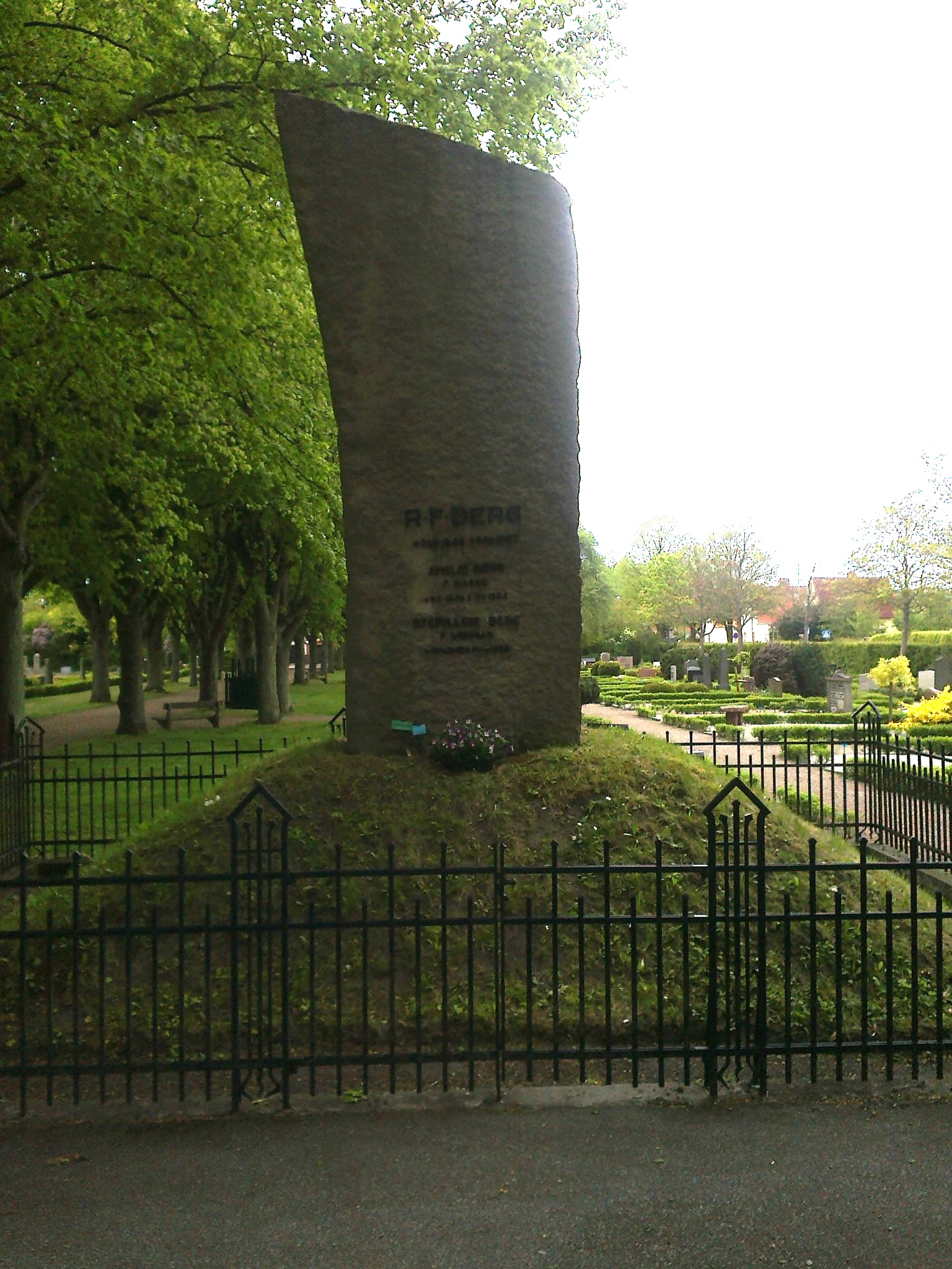 The tomb of Rudolf Fredrik Berg just outside the church of Limhamn.